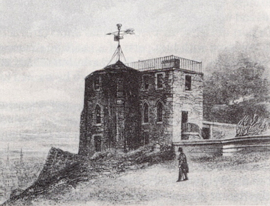 Picture of the Gothic Tower on Calton Hill, Edinburgh, Scotland.